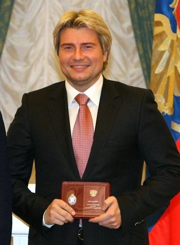 Nikolay Baskov, a Russian singer.